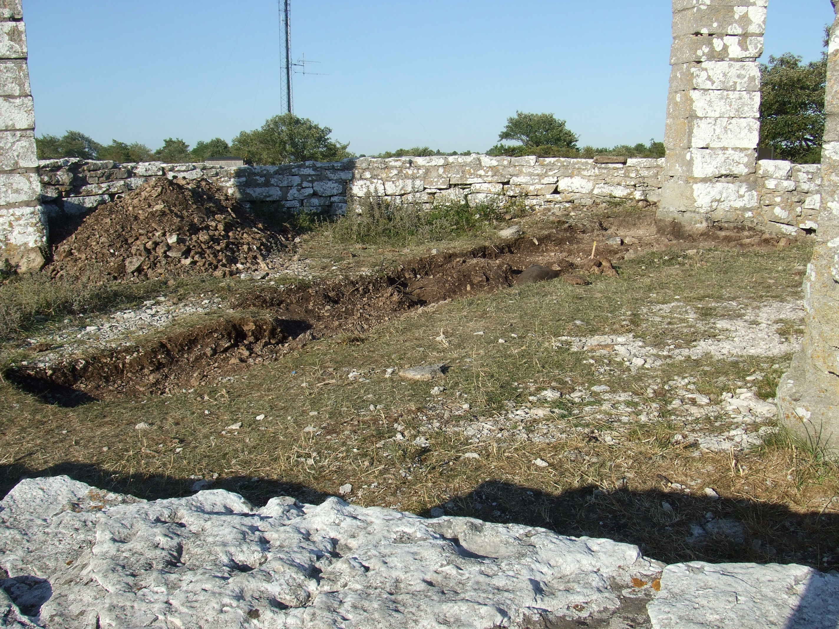 Archeologiacal excavation inside the gallows at Galgberget, Visby